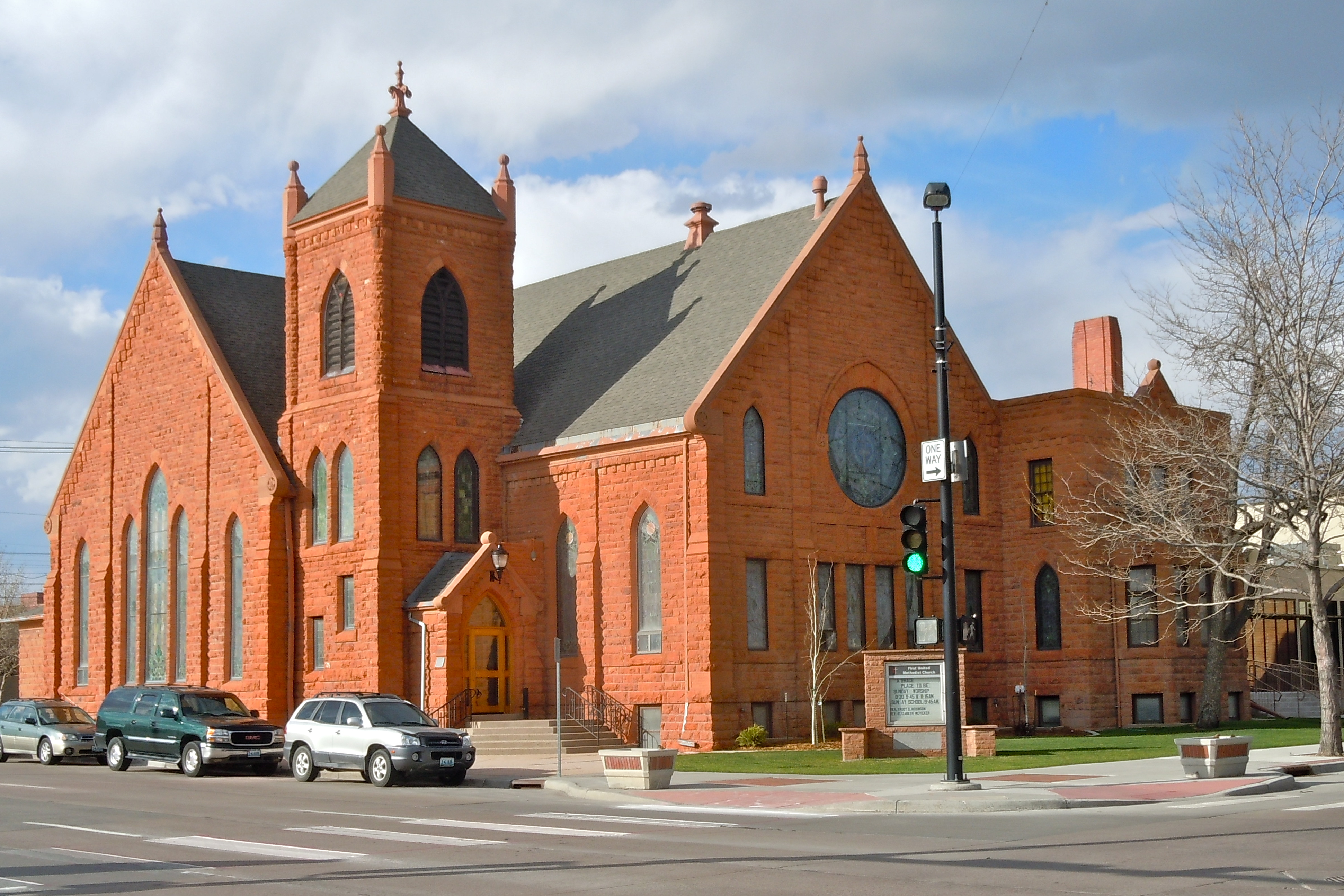 First United Methodist Church on the NRHP since February 25, 1975. At the northeastern corner of 18th St. and Central Ave., Cheyenne, Wyoming.